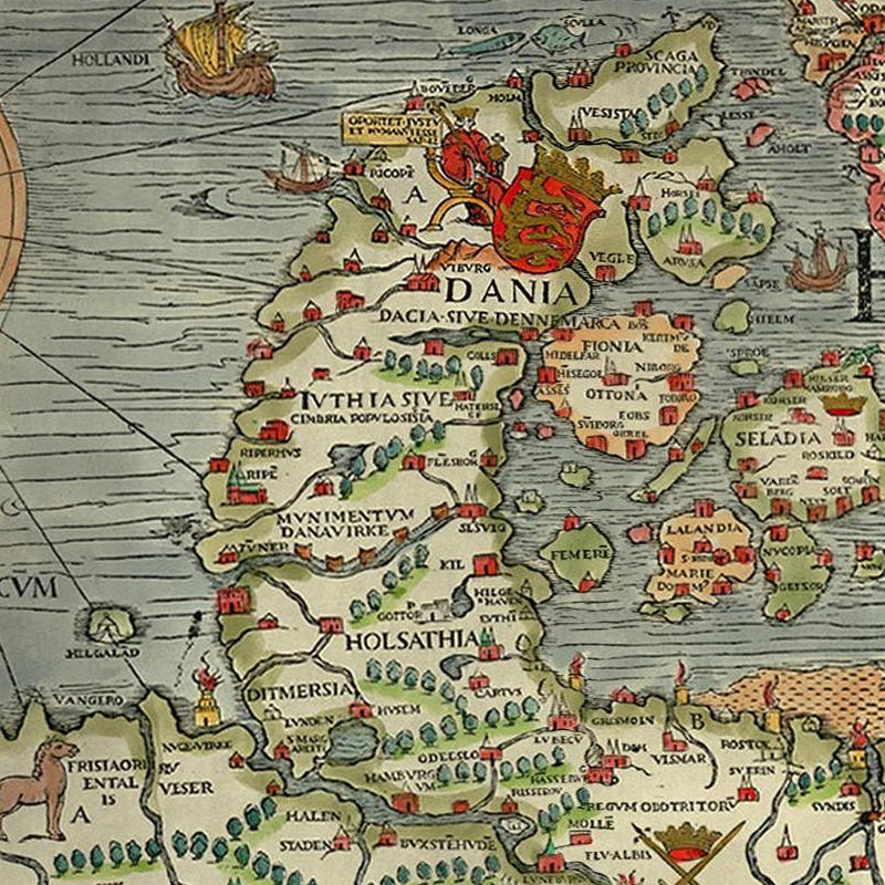 Dannevirke, extract from Olaus Magnus' Carta Marina from 1572